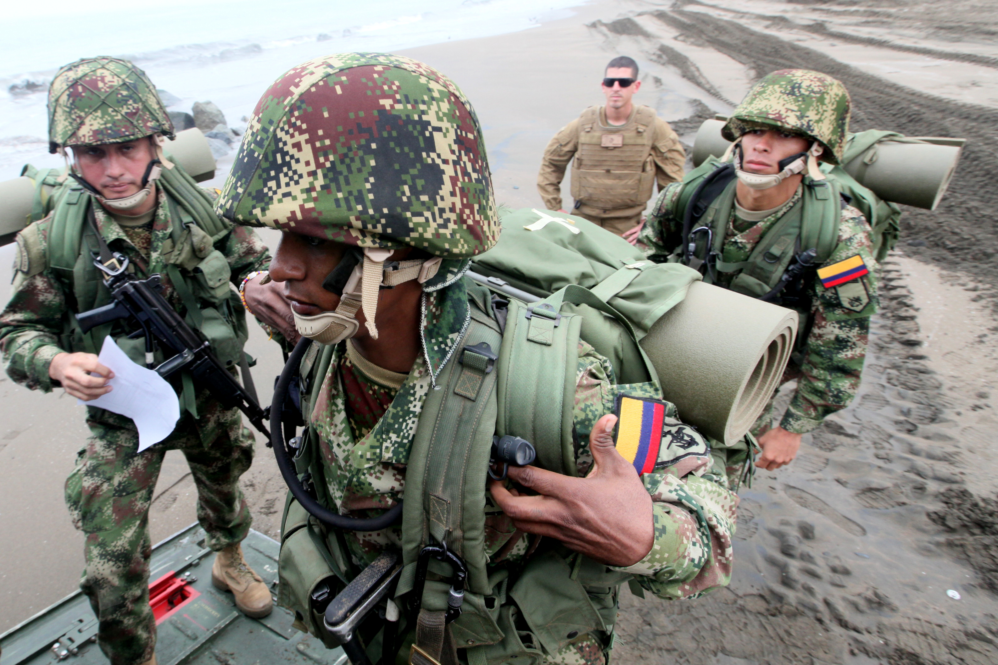 Colombian marines board an amphibious assault vehicle at the beach in Ancon, Peru, July 16, 2010.